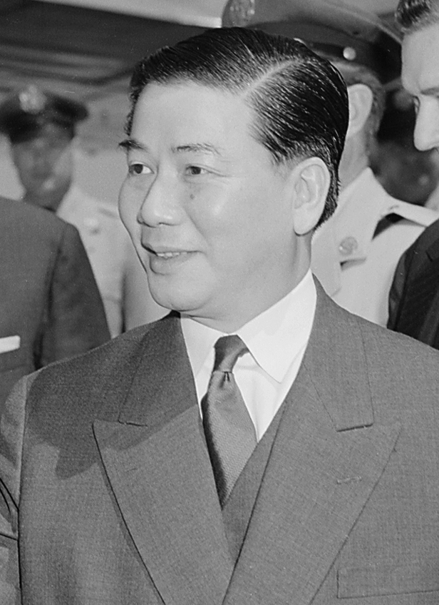 Cropped image showing South Vietnamese President Ngo Dinh Diem ARC Identifier: 542189 Item from Record Group 342: Records of U.S. Air Force Commands, Activities, and Organizations, 1900 - 2000 Part of Series: Black and White Photographs of U.S. Air Force and Predecessors' Activities, Facilities, and Personnel, Domestic and Foreign, 1930 - 1975